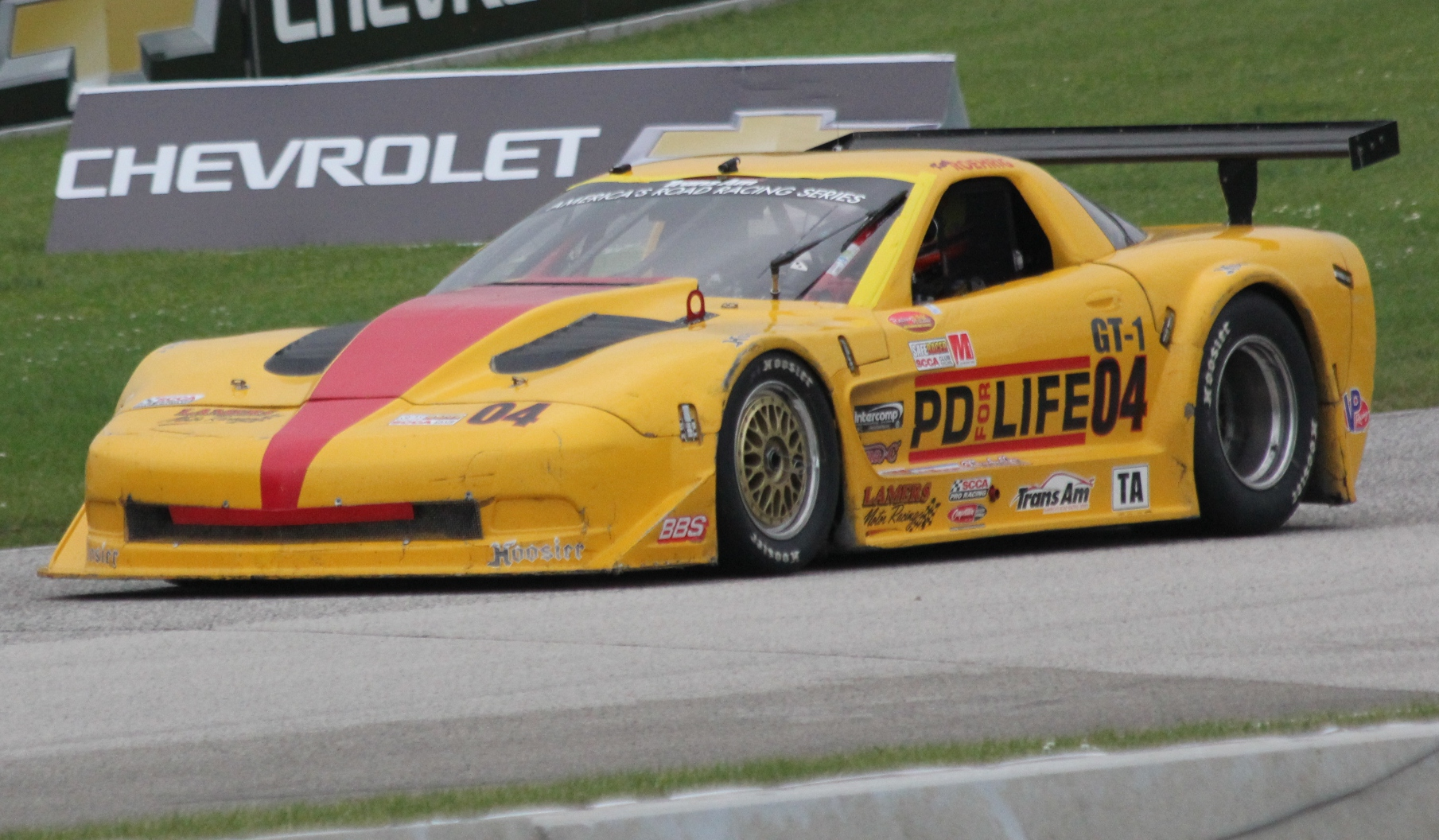 Tony Ave racing for his third place finish in the TA class during SCCA Trans-Am Race at Road America.